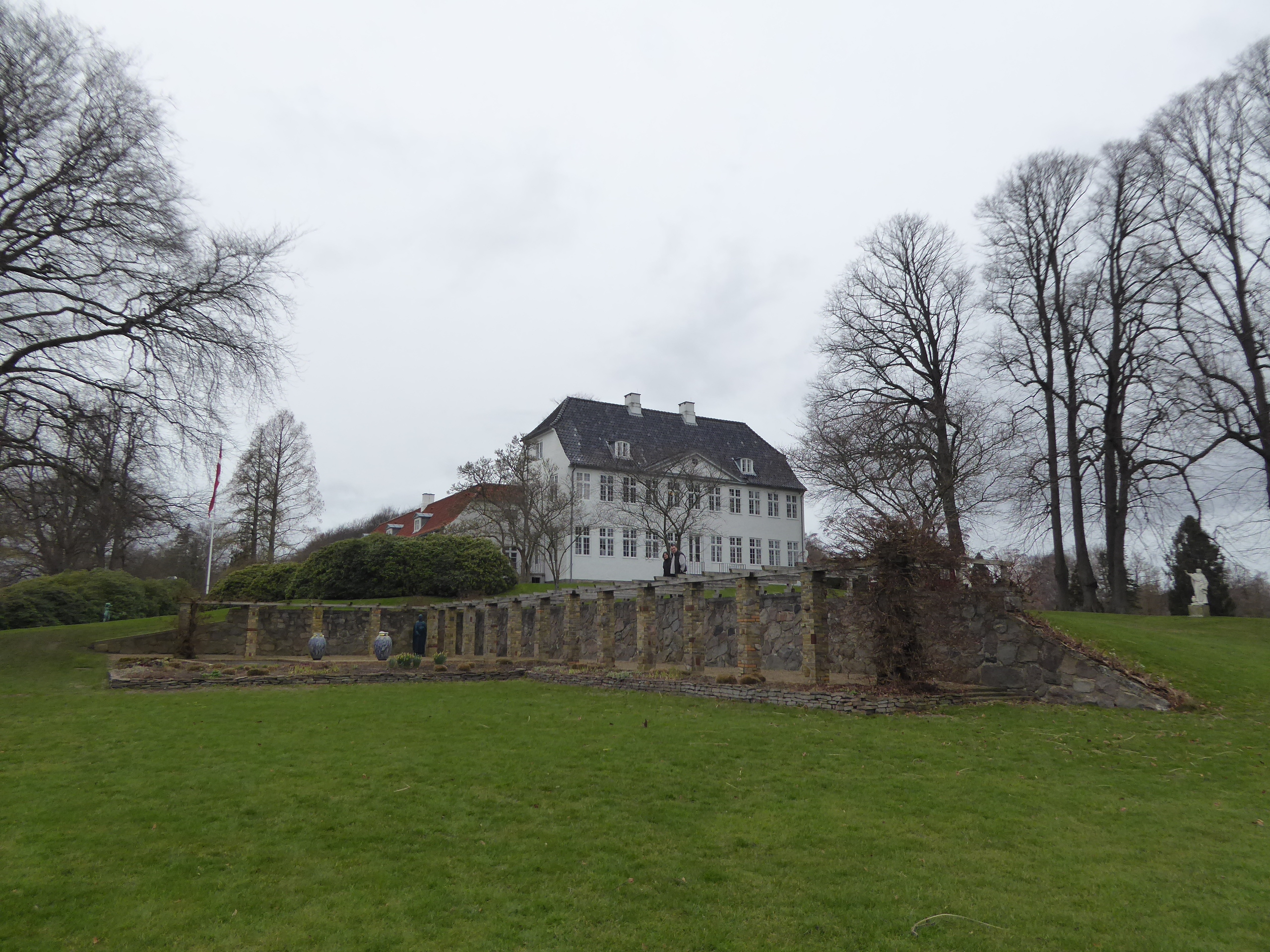 The mansion Marienborg of Copenhagen which is used as residence for the Danish prime minister and for representative purposes. It is usually closed for the public but after a renovation it was possible to take part in a conducted tour during a weekend. The main building and the cloister garden.